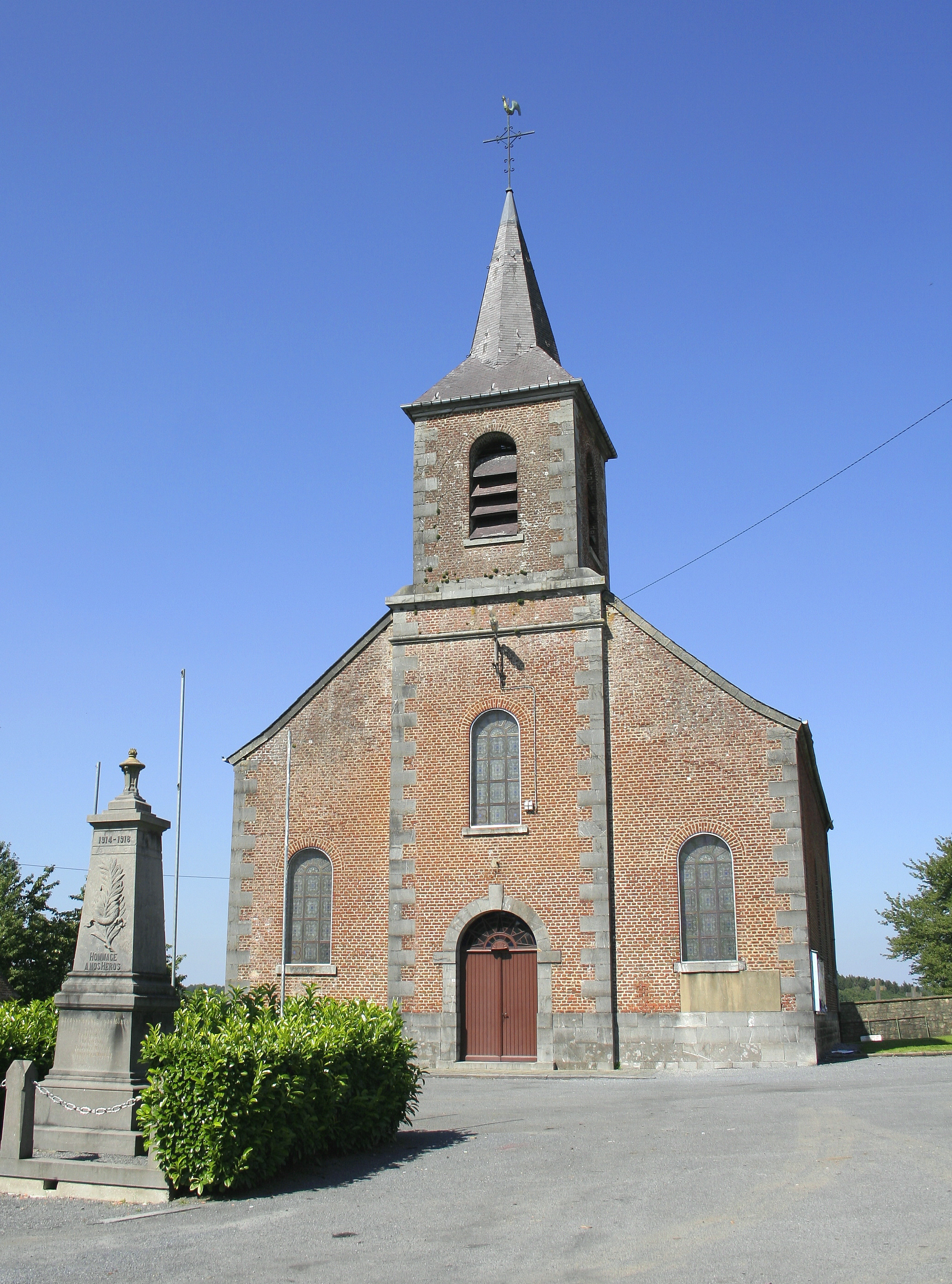 Macquenoise (Belgium), the St. Amand church.